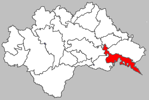 Position of municipality inside Sisak-Moslavina County